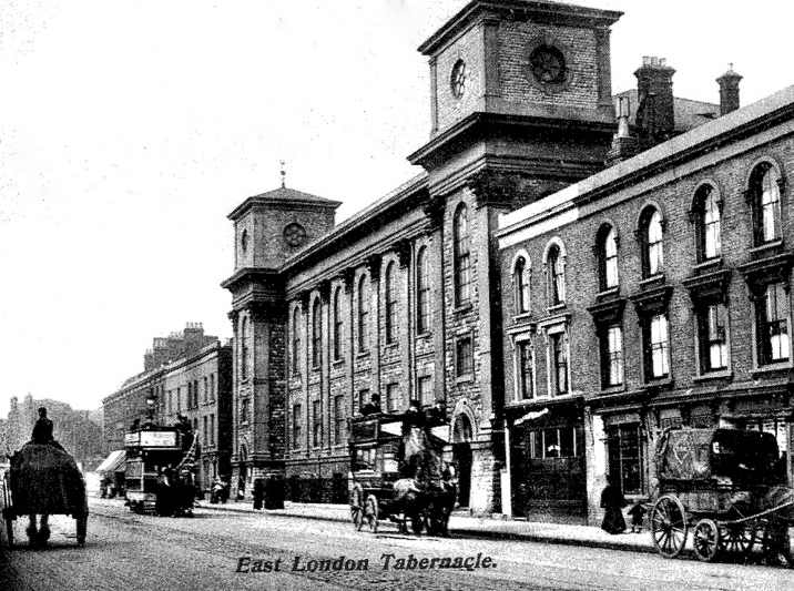 East London Tabernacle, Burdett Road, London E3 in about the 1880s. It was destroyed by bombing in 1944 and replaced with a new building in 1954.